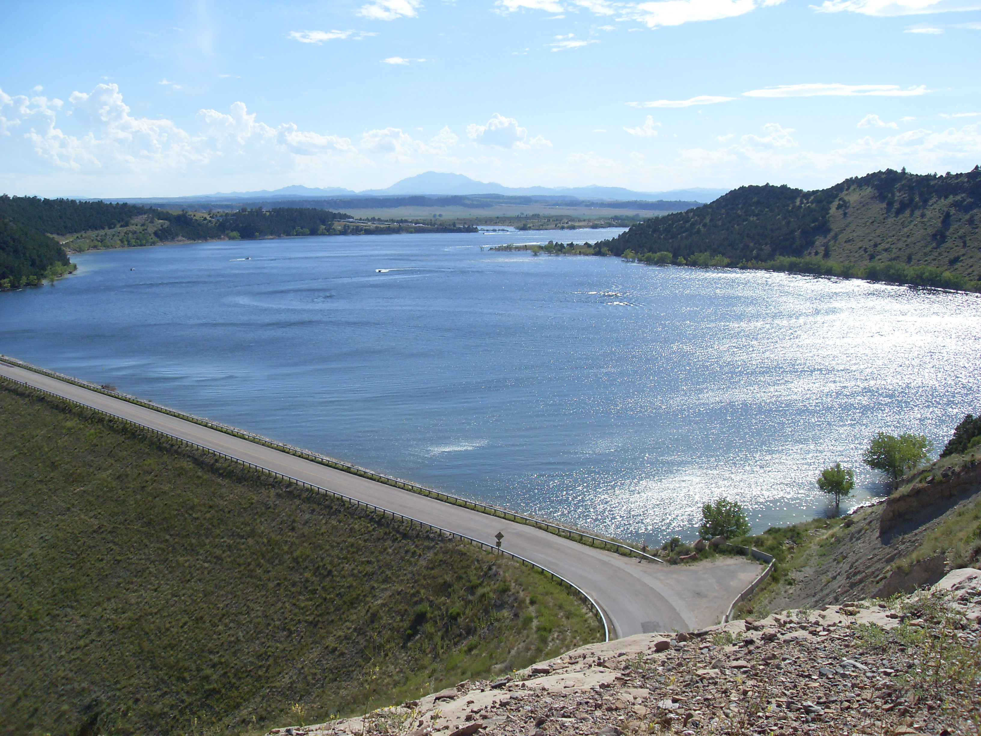 Glendo Reservoir in the Glendo State Park and in the background the Laramie Peak, Wyoming, USA